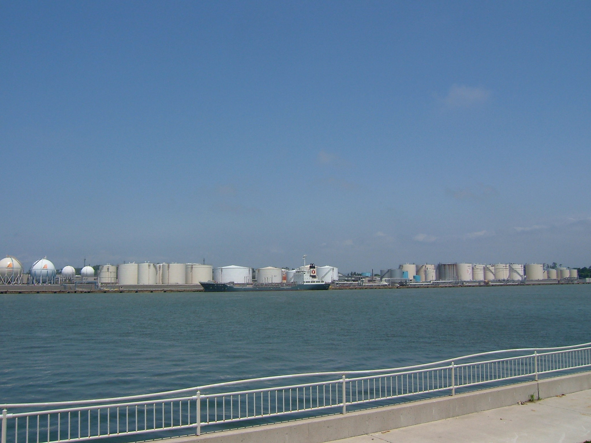 A view of Sekiyu Wharf[1] on Port of Kanazawa. ↑ Port of Kanazawa